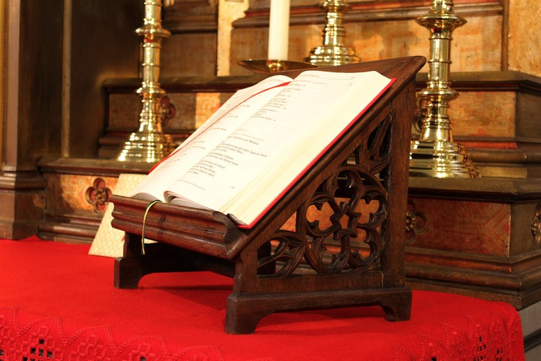 Logophoron